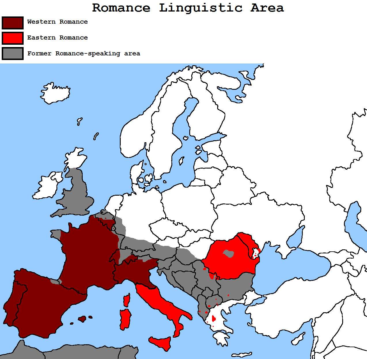 Romance Linguistic Area.